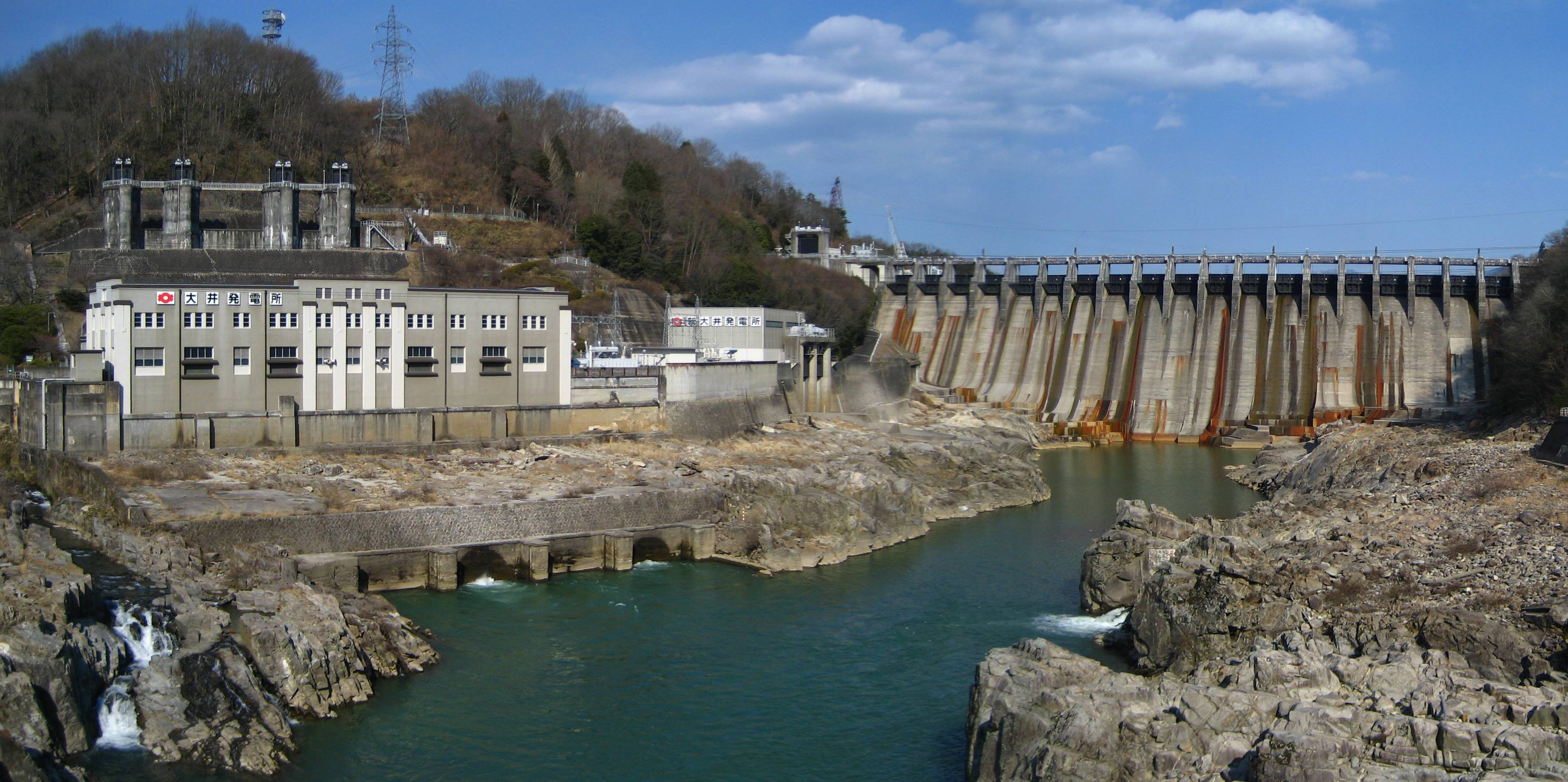 Oi Dam (大井ダム) is a dam on the boundary between Ena city and Nakatsugawa city, Gifu prefecture, Japan.